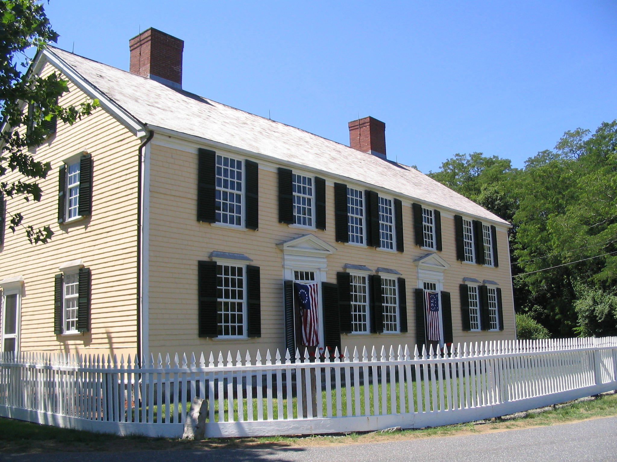 The Artemas Ward house on 6/30/2007, Artemas Ward day in Shrewsbury, MA.